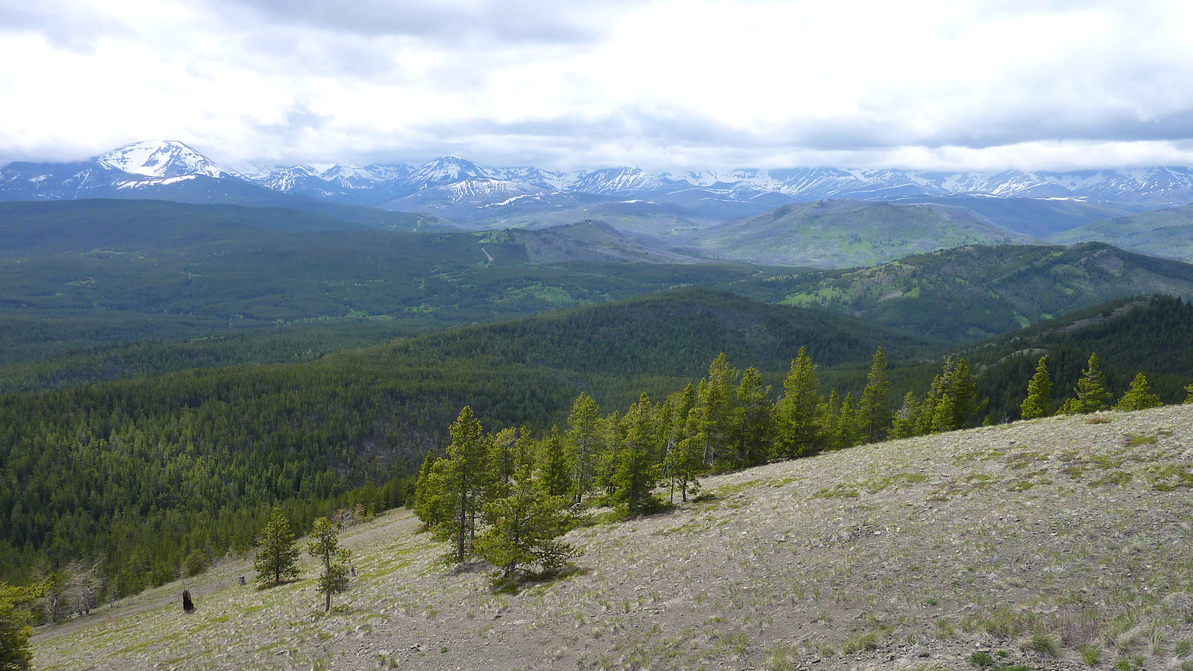 View from Carbondale Fire Lookout